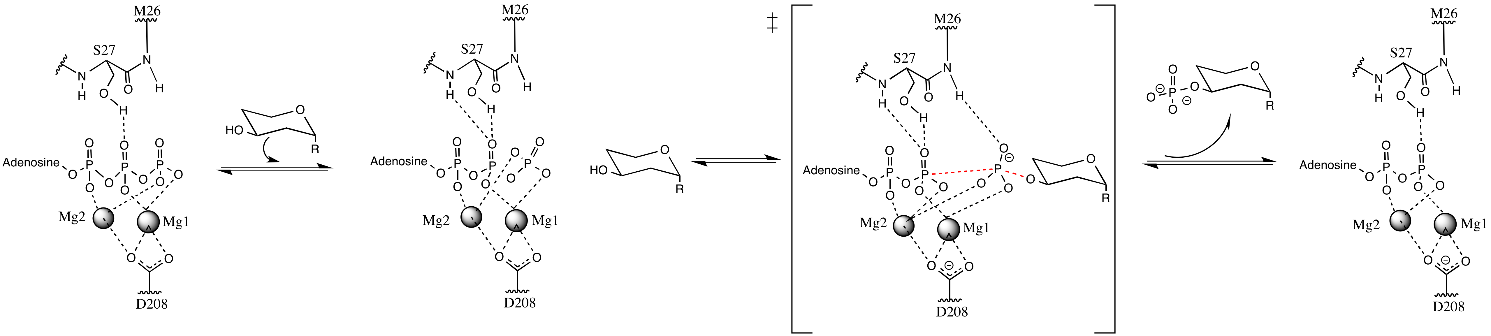 Detailed reaction mechanism of APH, highlighting involvement of S27 and M26 in coordinating phosphate